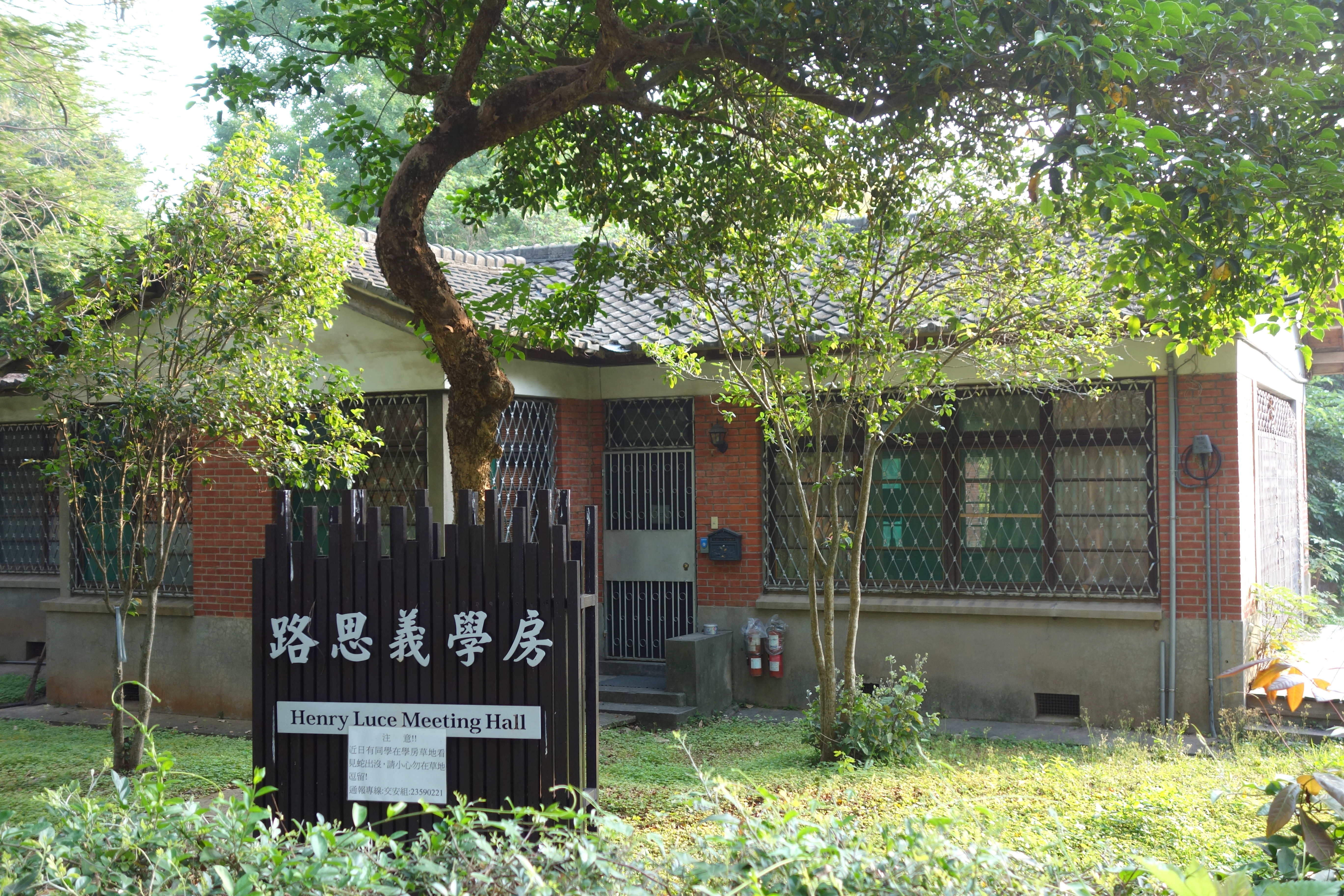 Tunghai University - Taichung, Taiwan.